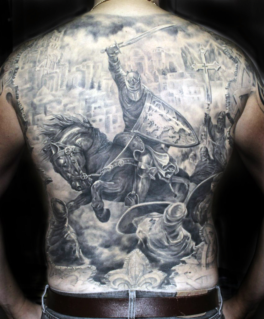 crusade tattoo